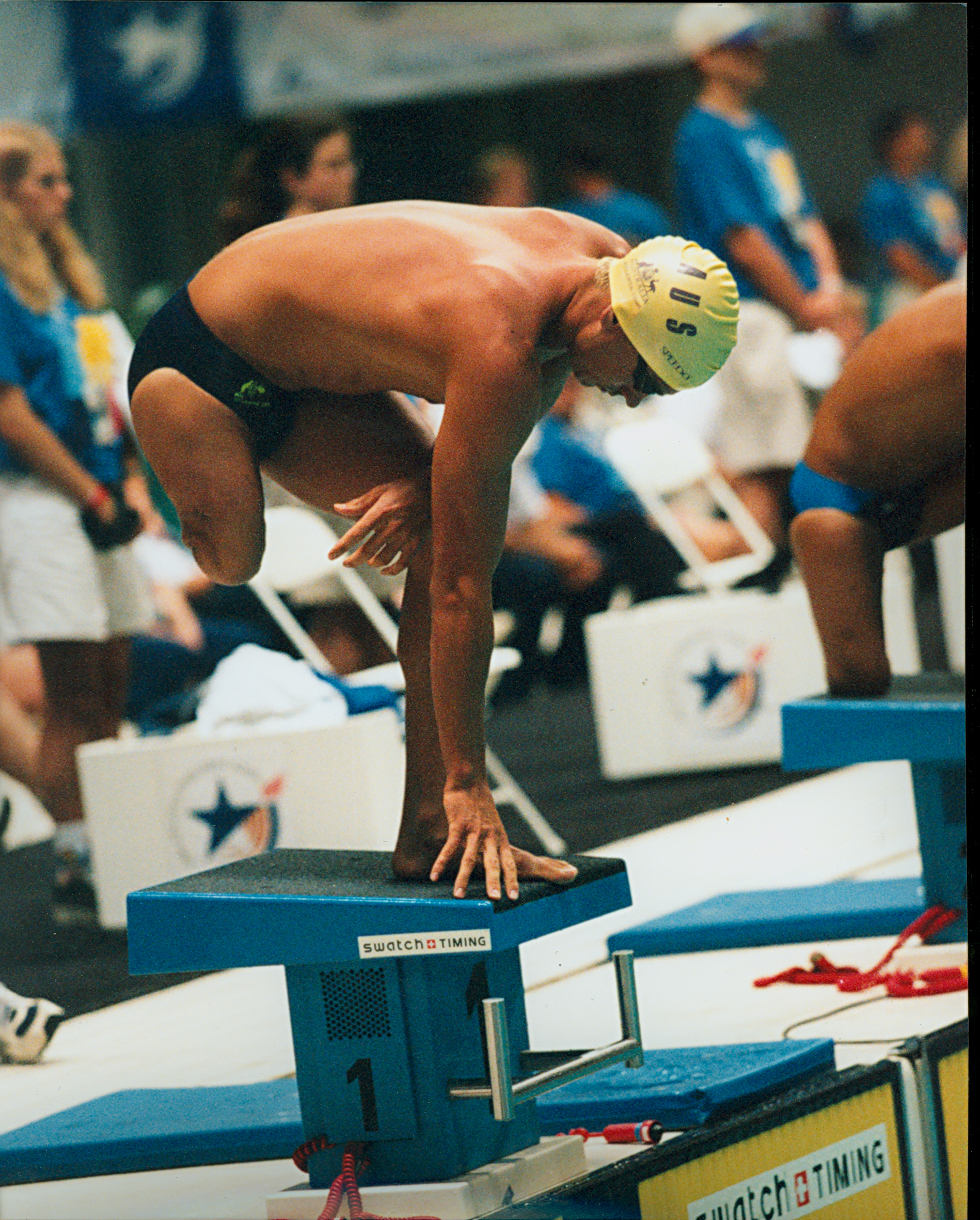 Australian athletes at the Atlanta 1996 Paralympic Games